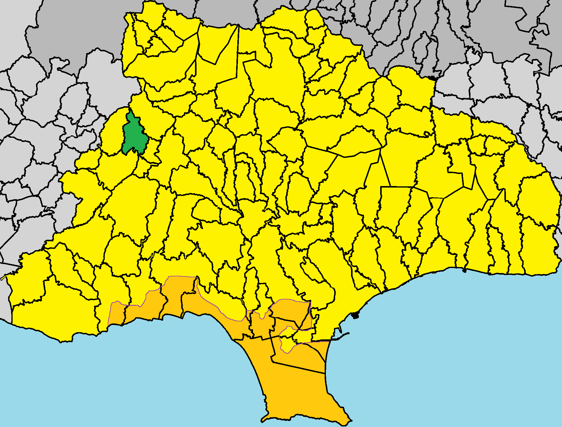 Vasa Koilaniou in Limassol District.